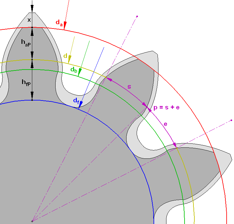 basic nomenclature of involute gears